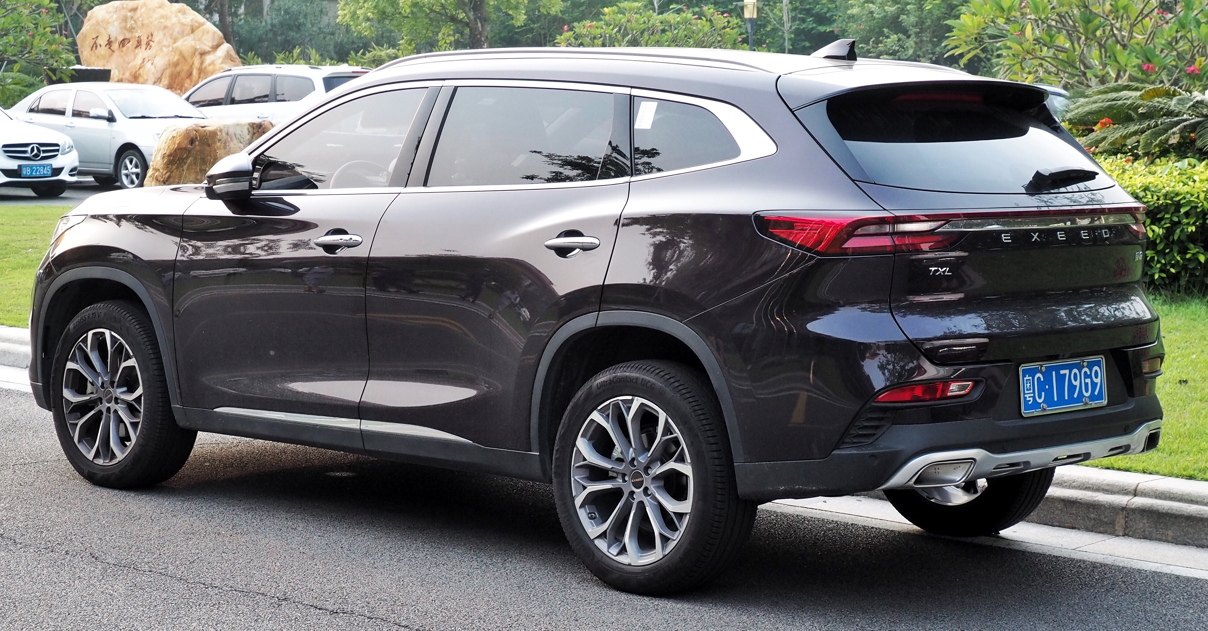 A 2019 Exeed TXL photographed in Zhongshan, Guangdong province, China. 中文（中国大陆）: 一辆2019年的星途TXL，摄于中国广东省中山市。